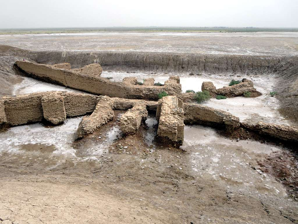 Northeast of Nasiriyah, Iraq, Telloh (Girsu) was a city state of the 3rd millennium BC Sumerian kingdom of Lagash. Many cuneiform tablets have been discovered here.